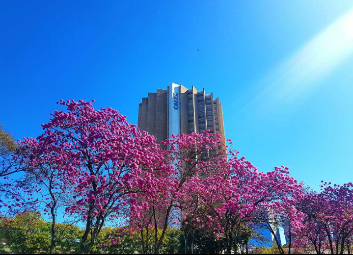 Caixa Econômica Federal HeadquartersEsperanto: Ĉefsidejo de Caixa Econômica Federal